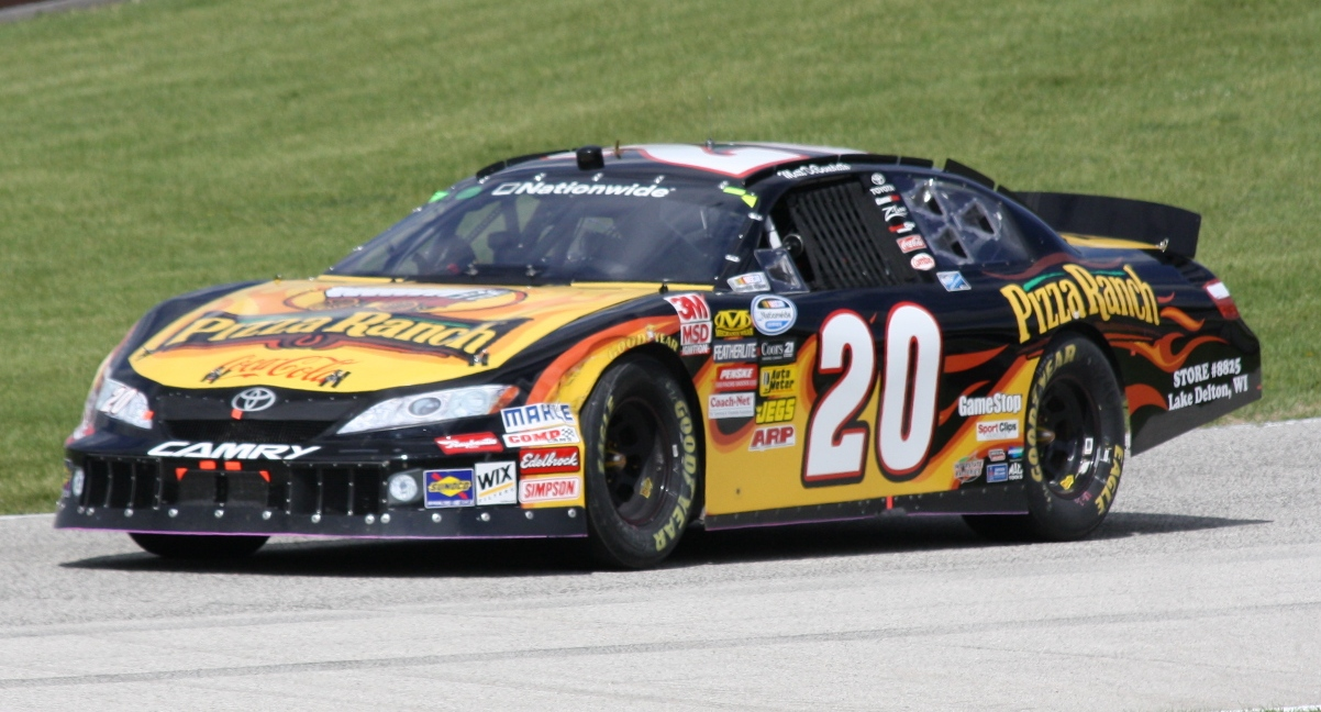 The NASCAR racecar for driver Michael DiBenedetto at the 2010 Bucyrus 200 at Road America.